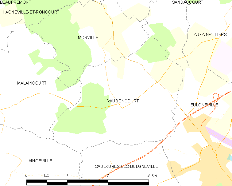 Map of French municipality Vaudoncourt